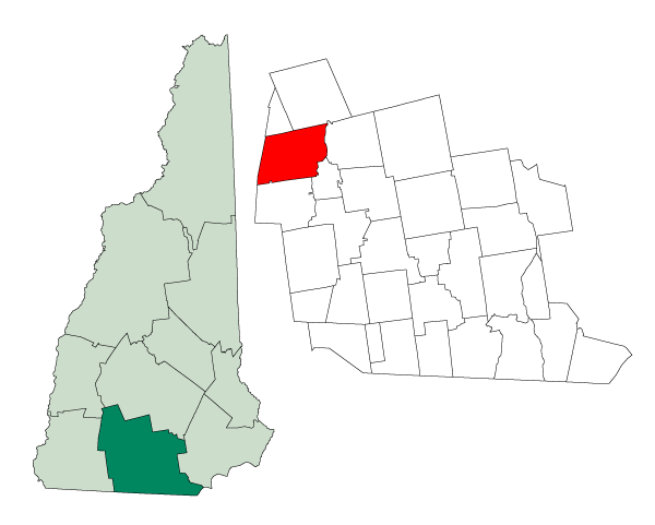 Map of a municipality in Hillsborough County, New Hampshire